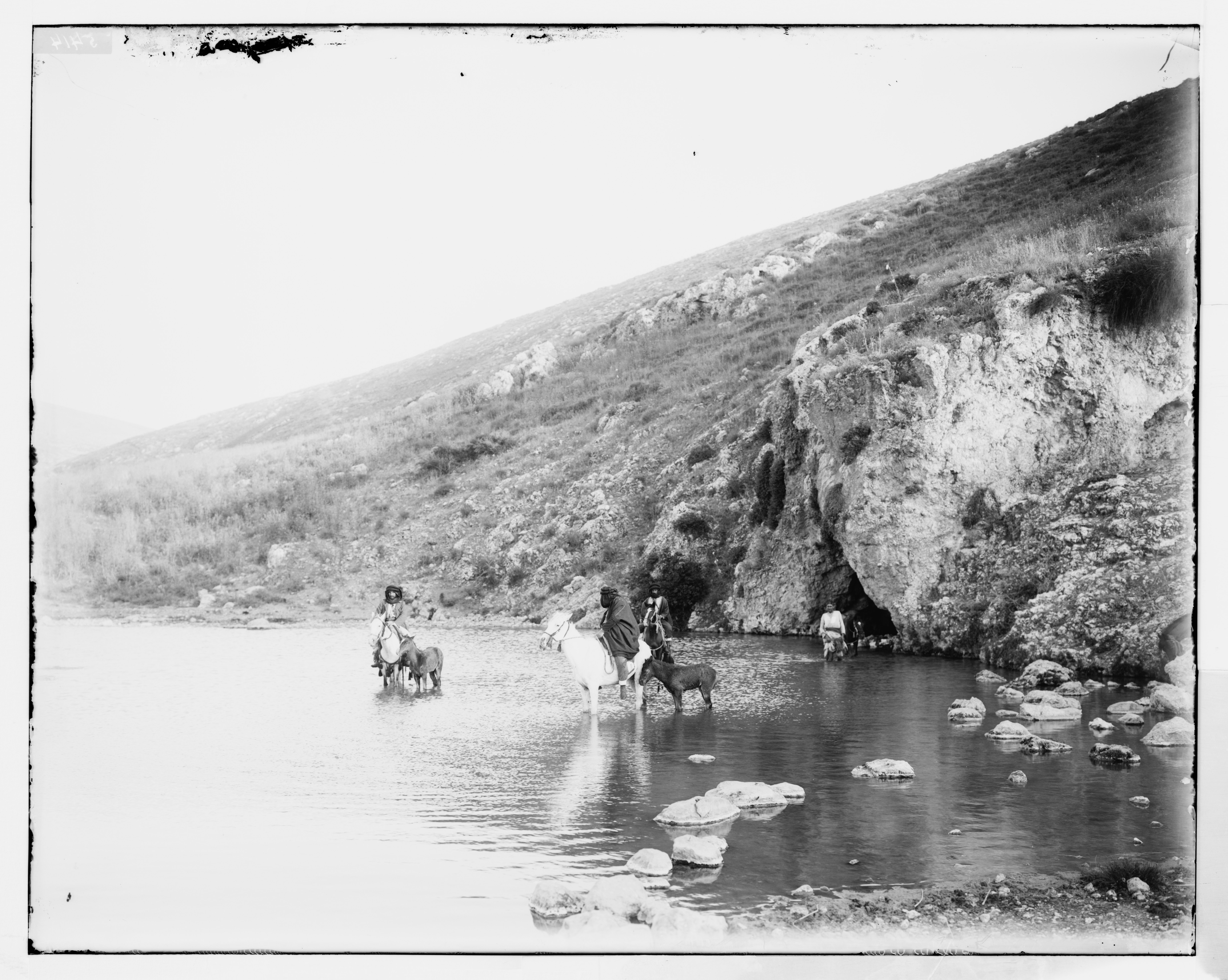 Title: Northern views. Gideon's Fountain ('Ain Jalud) Abstract/medium: G. Eric and Edith Matson Photograph Collection Physical description: 1 negative